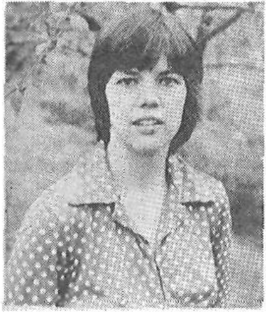 Elizabeth Warren in the 1976 edition of the Rutgers School of Law–Newark's yearbook.